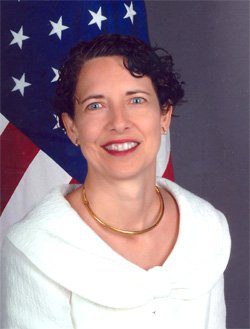 Kristen F. Bauer